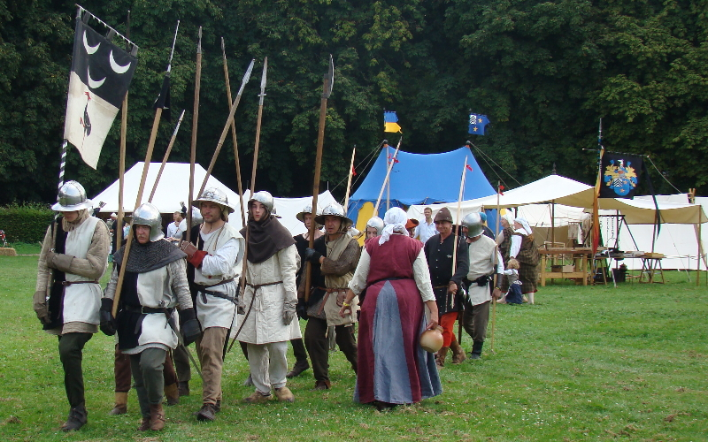 Compagnie of Kranenburgh at Fantastic Amsterdam, reinactment festival Amsterdam, the Netherlands